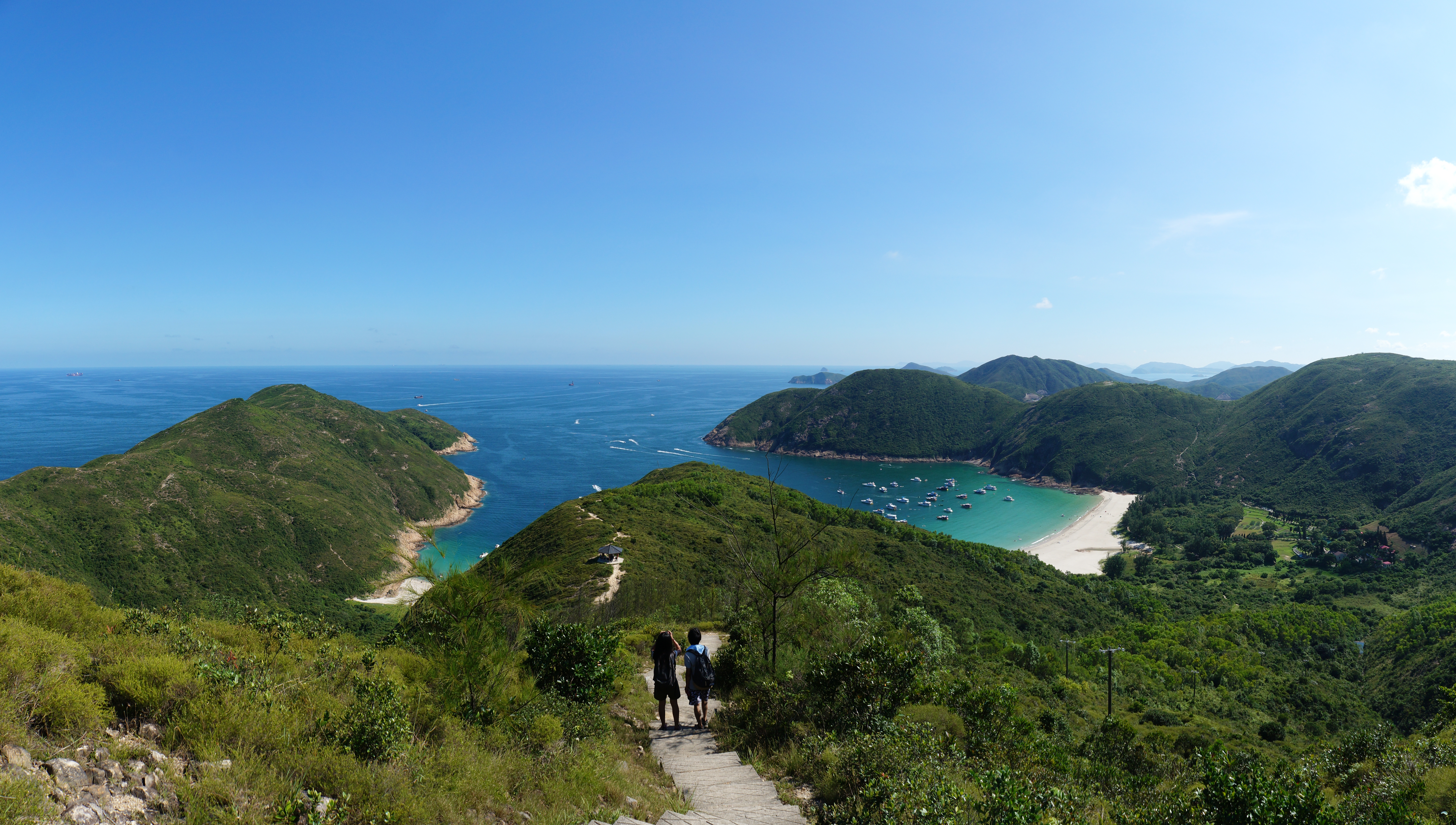 Long Ke Wan